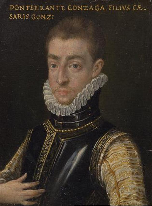 Portrait of Ferrante II Gonzaga, Duke of Guastalla (1563-1630)